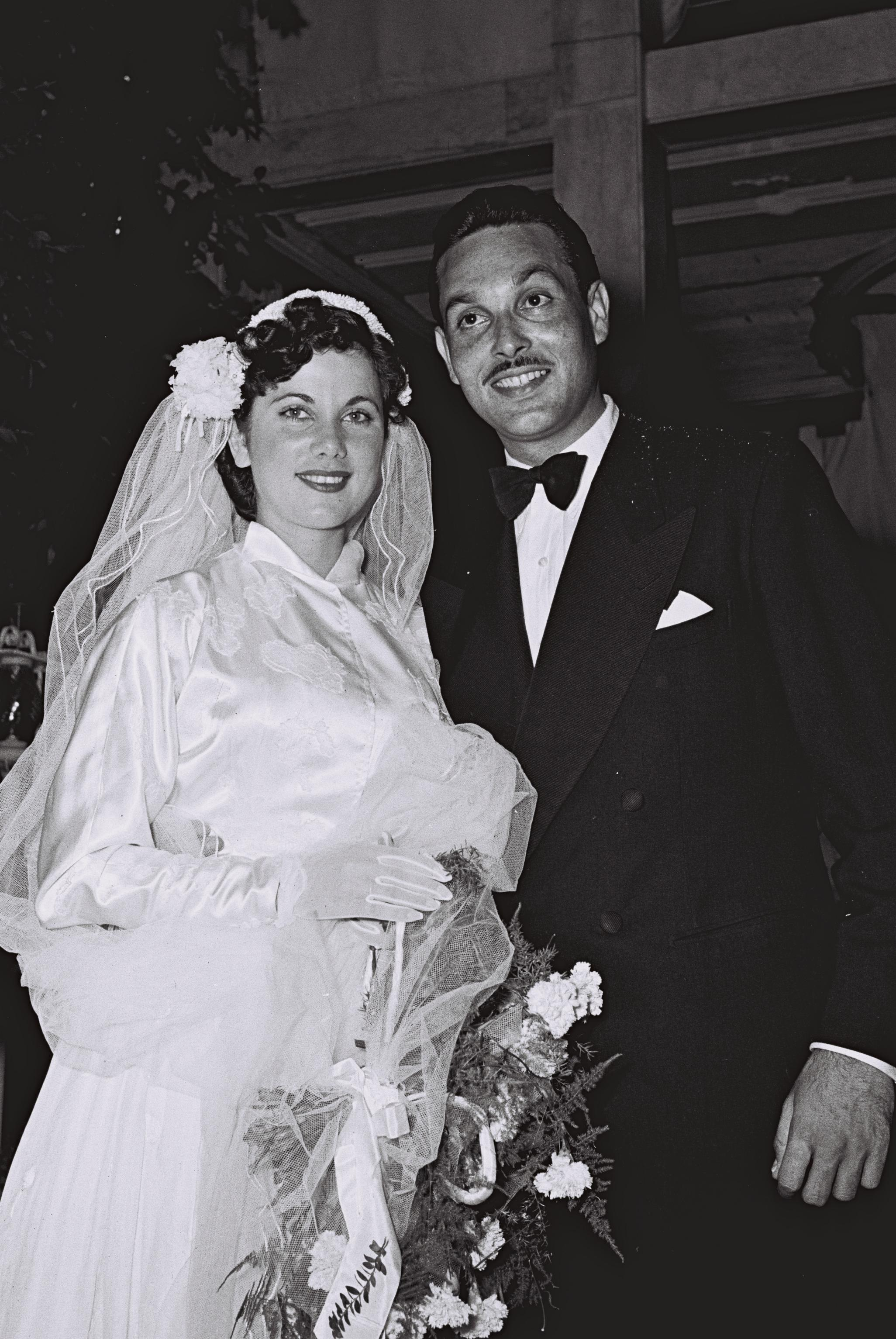 ISRAEL BEAUTY QUEEN MICHAL HAREL AND YITZHAK MODAI POSING FOR A WEDDING PICTURE